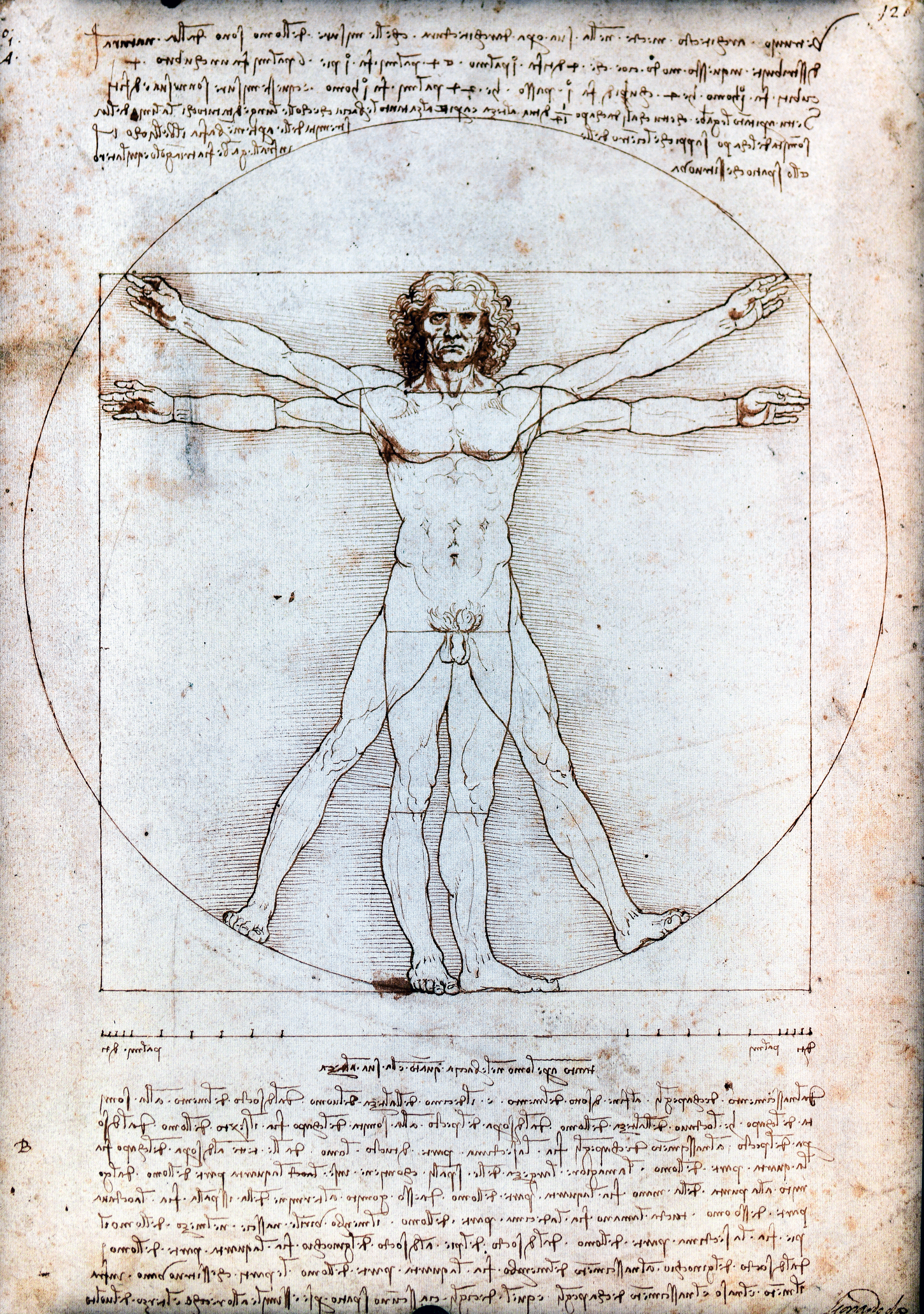 Vitruvian Man by Leonardo da Vinci